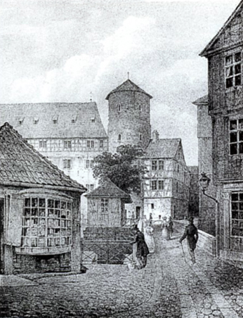 Zeughaus and Beginenturm in Hannover 1834/1835. Lithograph by Rudolf Wiegmann in his album of Hanover from 1835th.